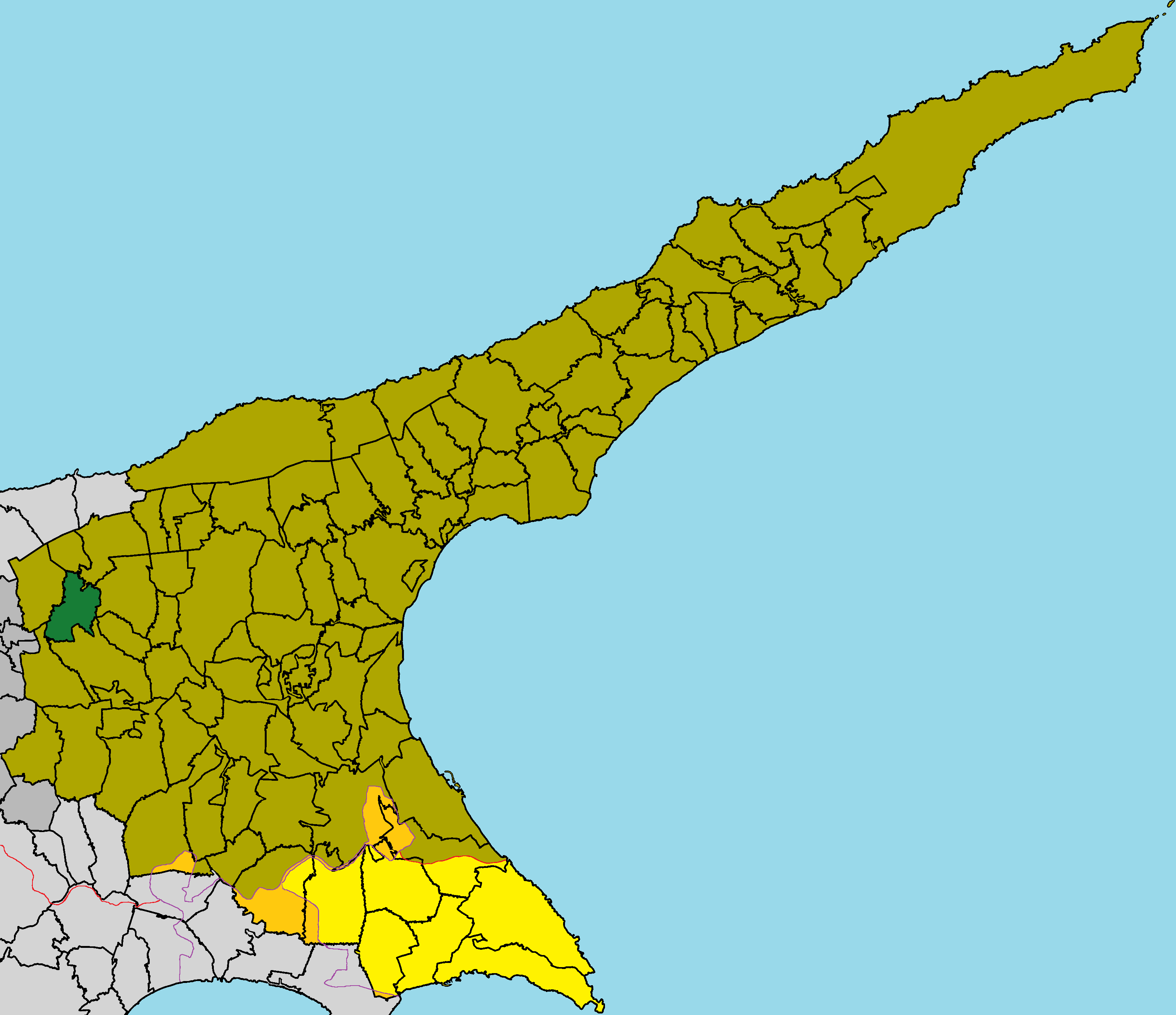 Kiados in Famagusta District (de jure).